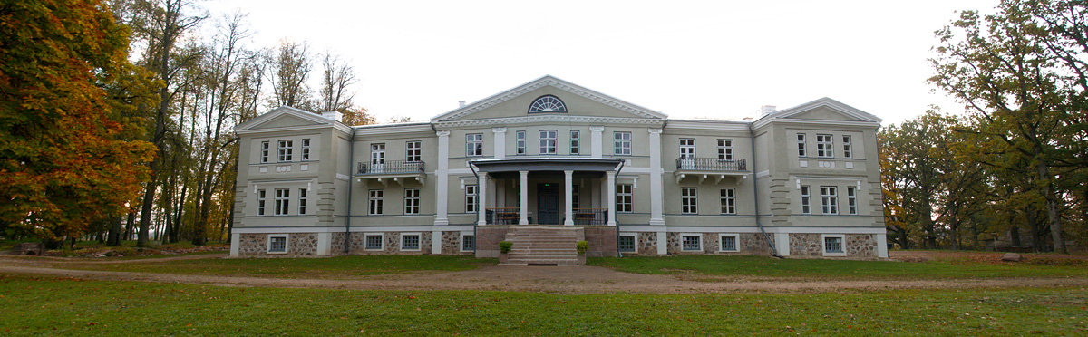 Kõpu manour